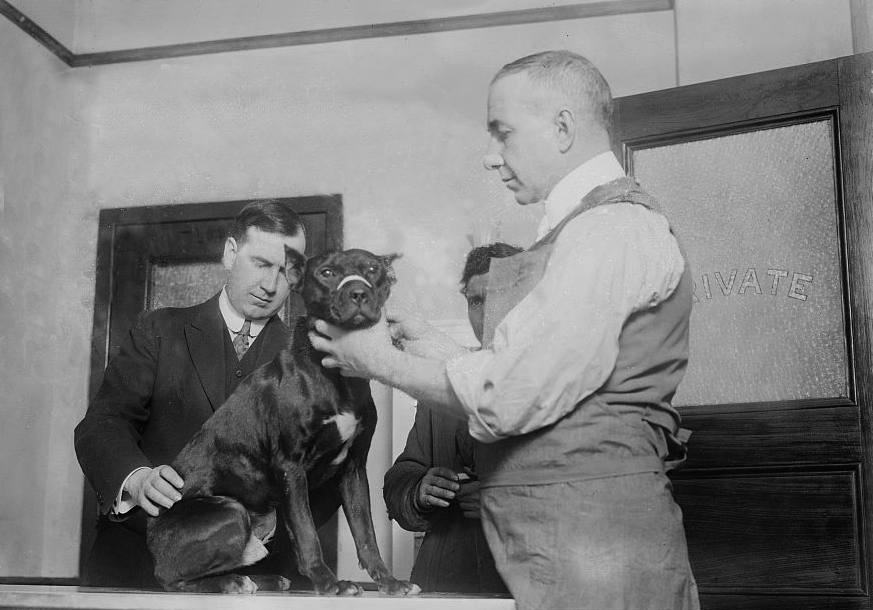 Bain News Service, publisher. 1st patient, Hospital of the New York Women's League for Animals, N.Y.C. [between ca. 1910 and ca. 1915] 1 negative : glass ; 5 x 7 in. or smaller. Notes: Title from unverified data provided by the Bain News Service on the negatives or caption cards. Forms part of: George Grantham Bain Collection (Library of Congress). Subjects: N.Y.C. Format: Glass negatives. Repository: Library of Congress, Prints and Photographs Division, Washington, D.C. 20540 USA, General information about the Bain Collection is available at Persistent URL: Call Number: LC-B2- 2973-11